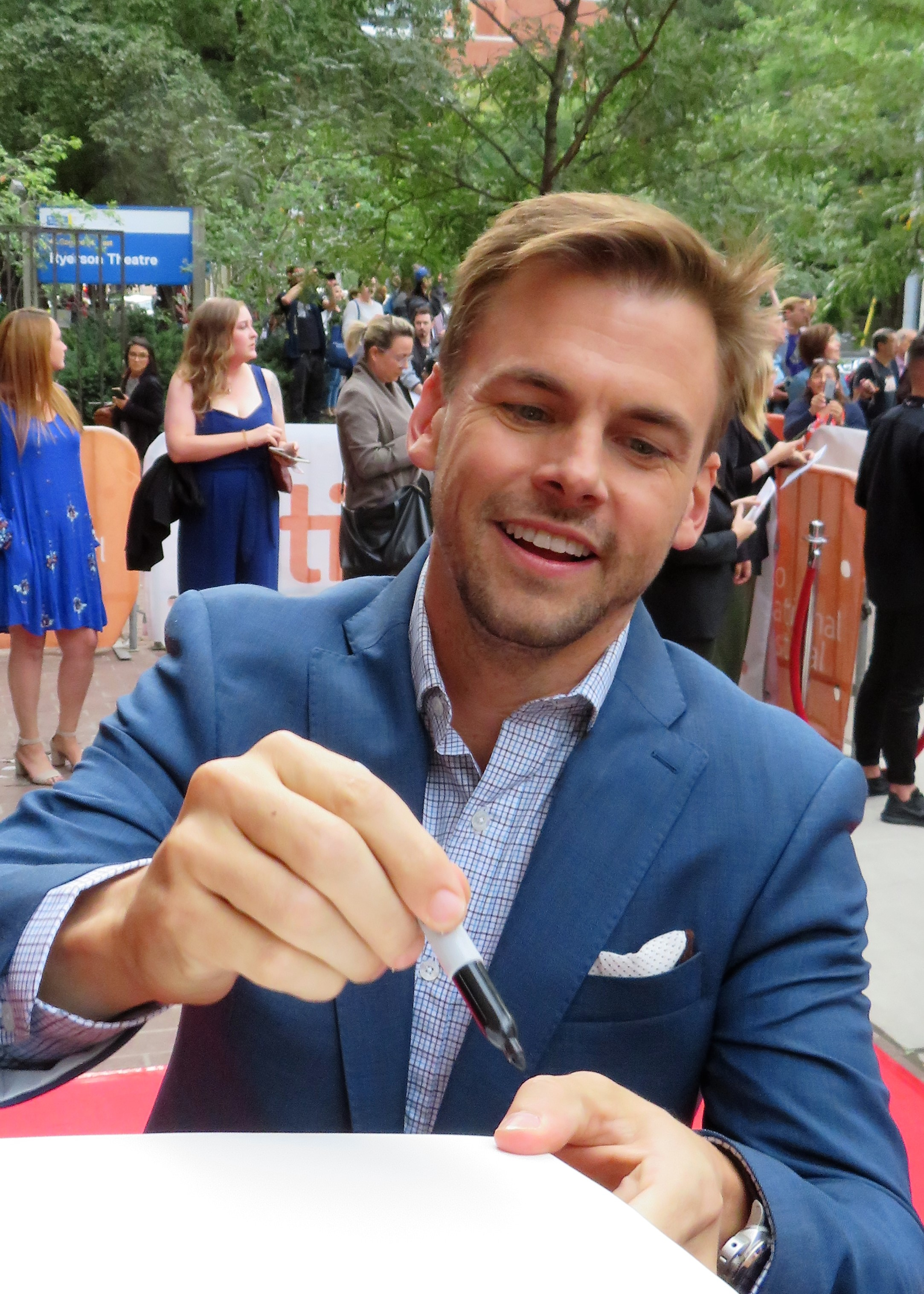 Tommy Dewey at the premiere of Front Runner, 2018 Toronto Film Festival